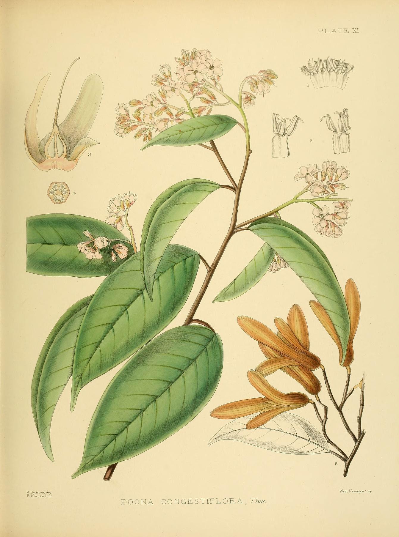 PL/ I WDaAlwraolal. R.Morgan lltt DOONA CONGESTIFLORA, Thxr. Vfe st. "U evonan imp.